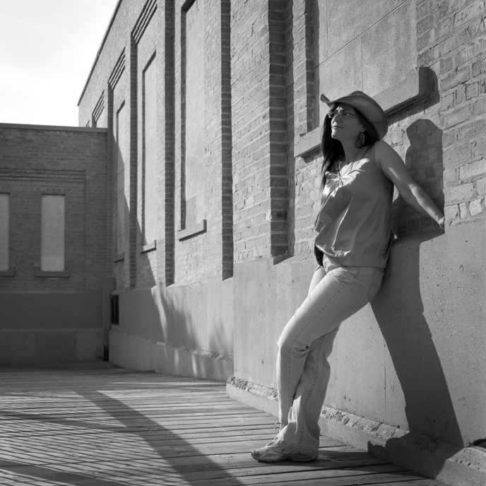 Anita Daher, August 2009 in Winnipeg, MB requested at WP:FFU